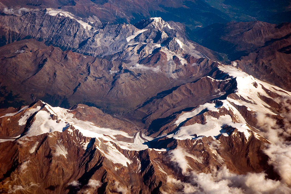 Ortler Alps at 10 000 m.